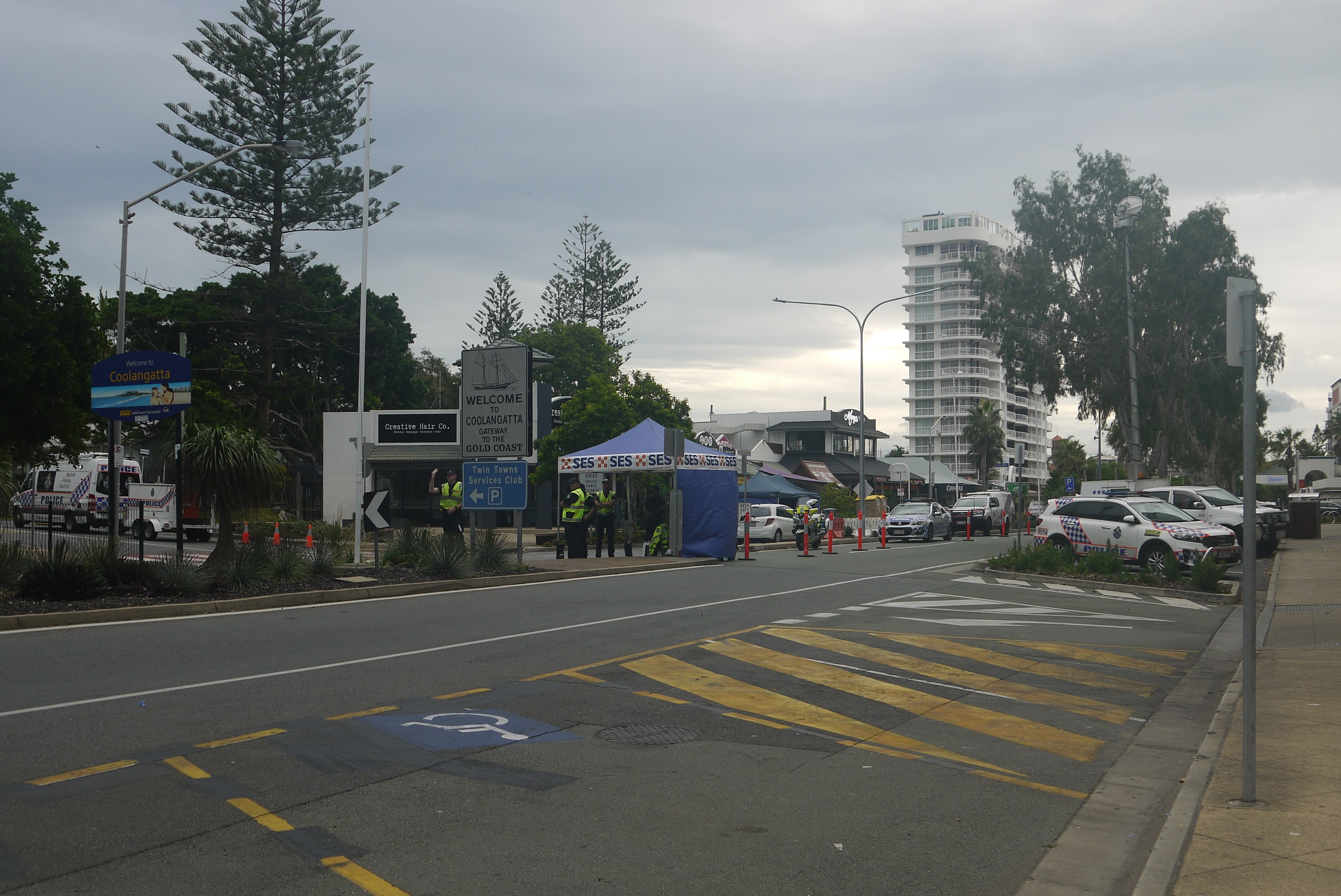 Queensland Border Closure - Griffith Street Checkpoint during COVID-19